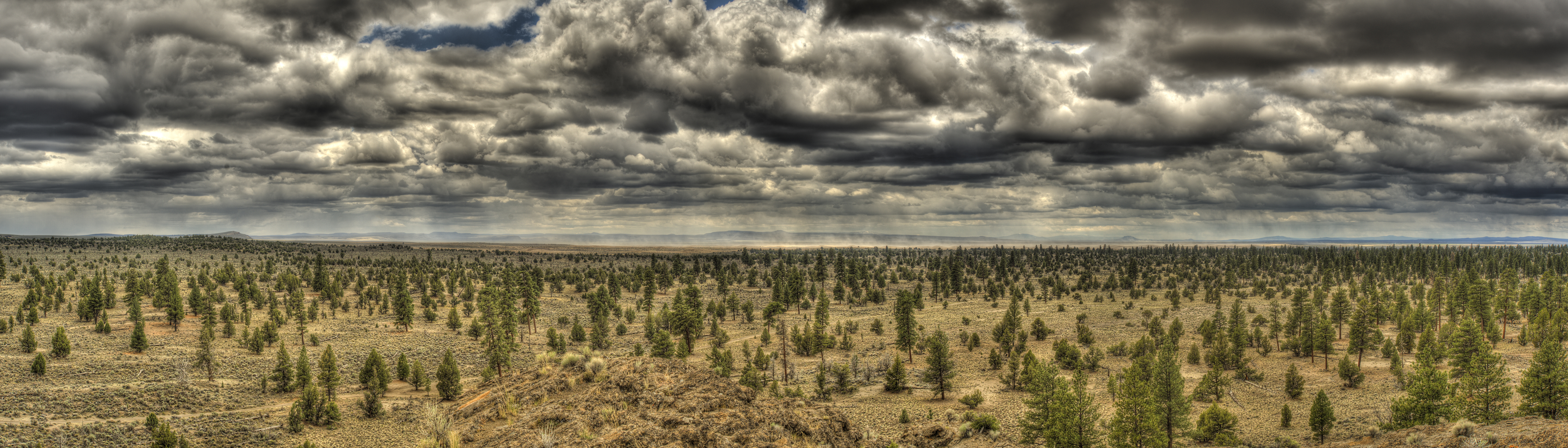 An unusual stand of ancient ponderosa pine forest growing out of the sand is the outstanding feature of the Lost Forest Research Natural Area, which is located in the northeast portion of the Christmas Valley Sand Dunes Area of Critical Environmental Concern. A remnant of a forest that existed in a cooler and wetter age, these pines survive on half the typical annual precipitation for this tree species due to unique soil and hydrologic properties of the area. The nearest forest is 40 miles to the northwest, yet the pines continue to reproduce and thrive in this environment. Old growth juniper groves also exist in the Lost Forest. Motorized vehicles are allowed in the Lost Forest on routes posted “open.” No cross country use is allowed. Camping is permissible in designated sites only.